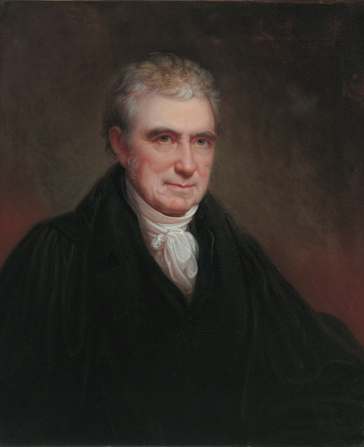 John Marshall oil on canvas 76.2 x 63.5 cm 1834 inscribed verso: Chief Justice Marshall. / Painted at ashington D.C. / by Rembrandt Peale / 1834.